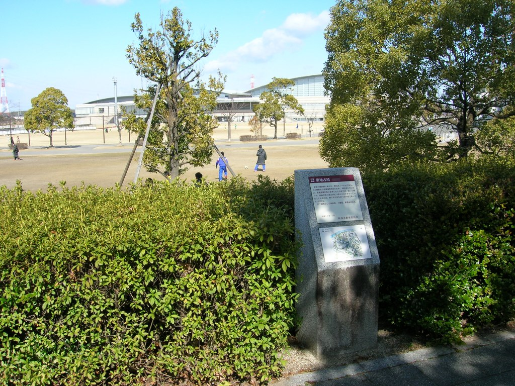 Site of Tsuiji kofun. Loc: Kariya city general sports park, Kariya city, Aichi Prefecture, Japan. 築地古墳跡地 撮影場所 愛知県刈谷市・刈谷市総合運動公園